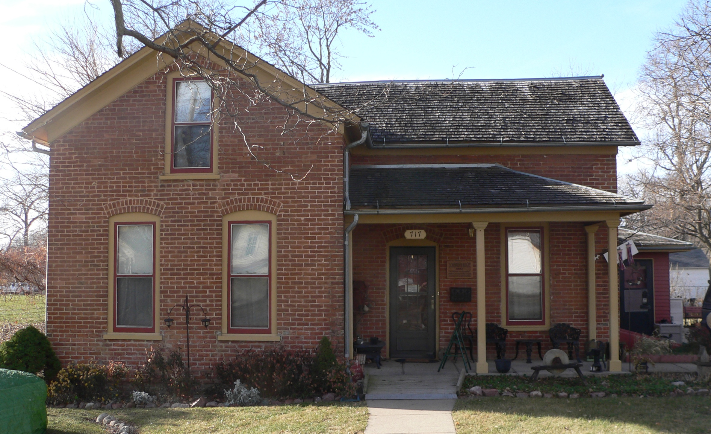 Fred Schnauber House, located at 717 Walnut Street in Yankton, South Dakota; seen from the east. The house was built in 1886. It is listed in the National Register of Historic Places.